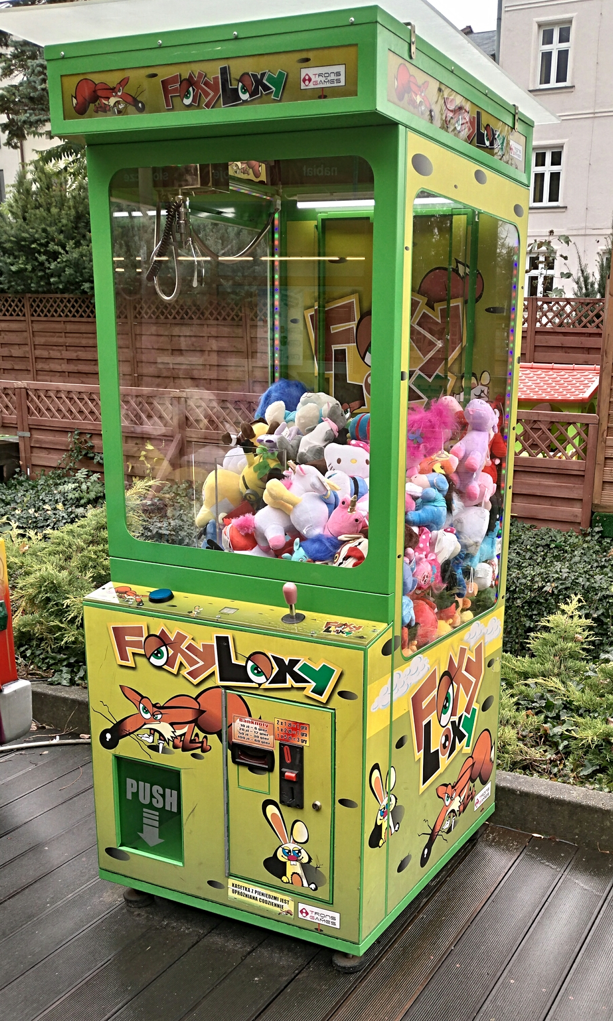 Claw crane in Ustroń, Poland 2017